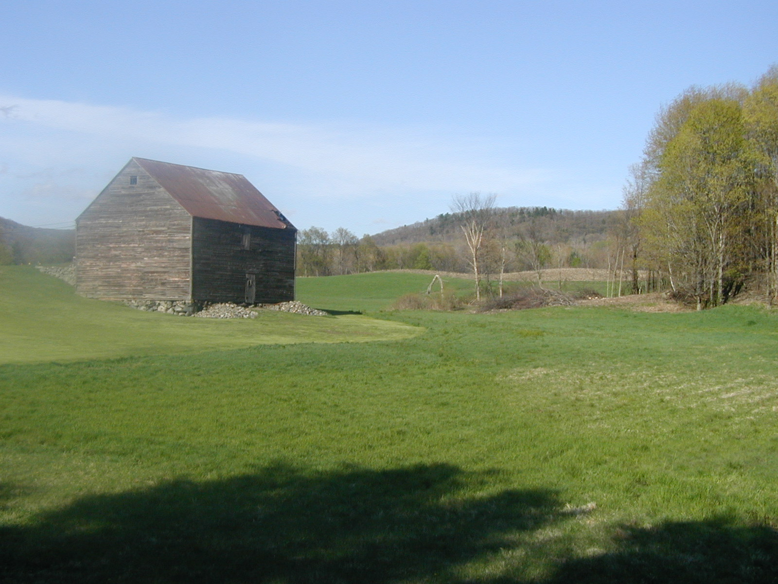 View of an old barn off Rt 351